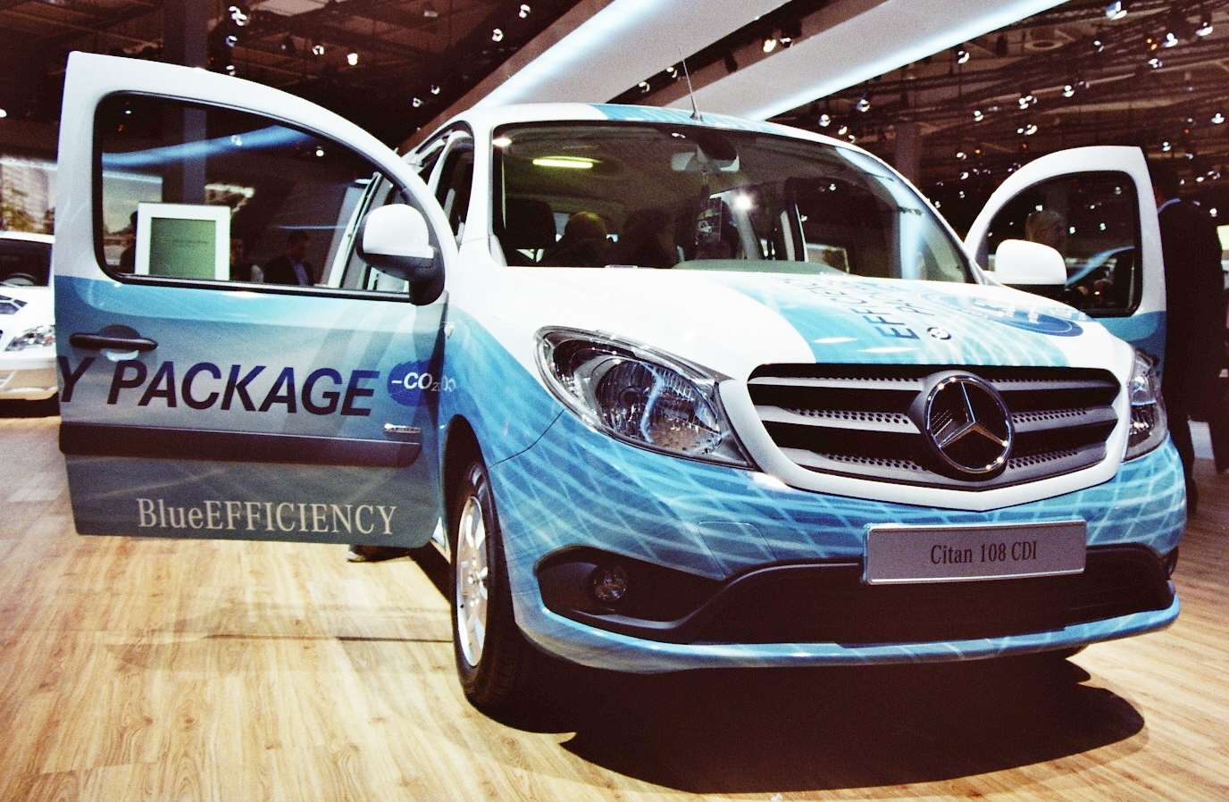 Mercedes-Benz Citan Van, 108 CDI BlueEFFICIENCY, built since September 2012, photo taken at exhibition IAA 2012 in Hanover, Germany